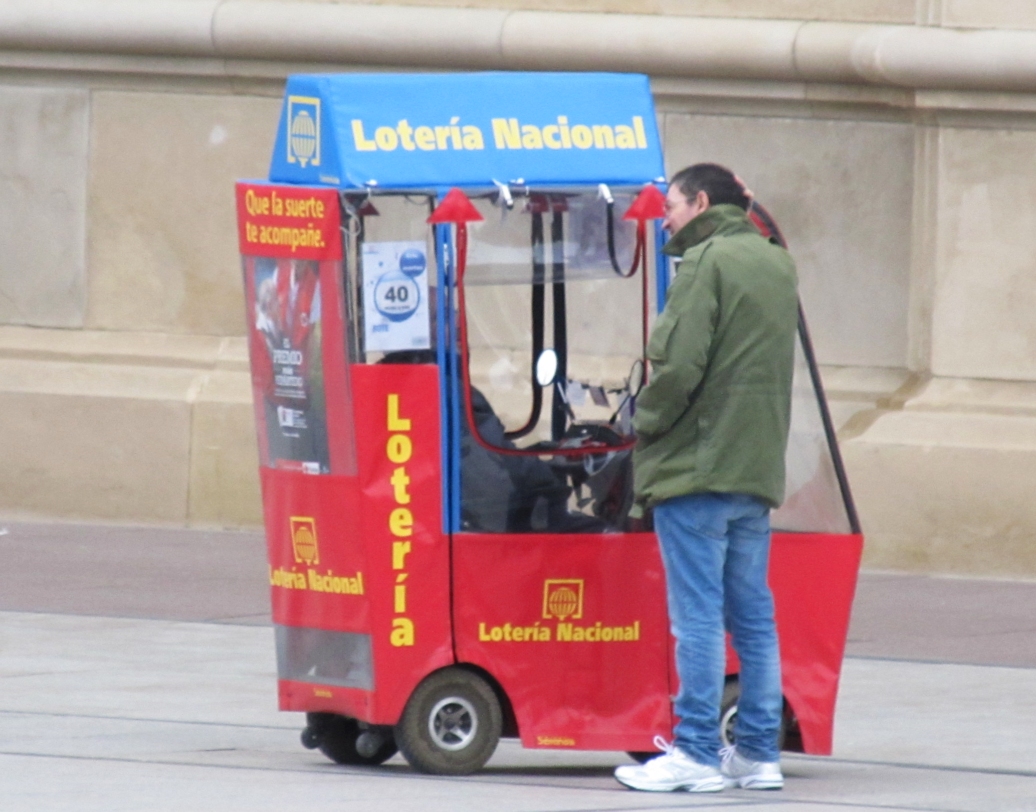 Spanish national lottery: ticket selling in Plaza del Pilar (Zaragoza)